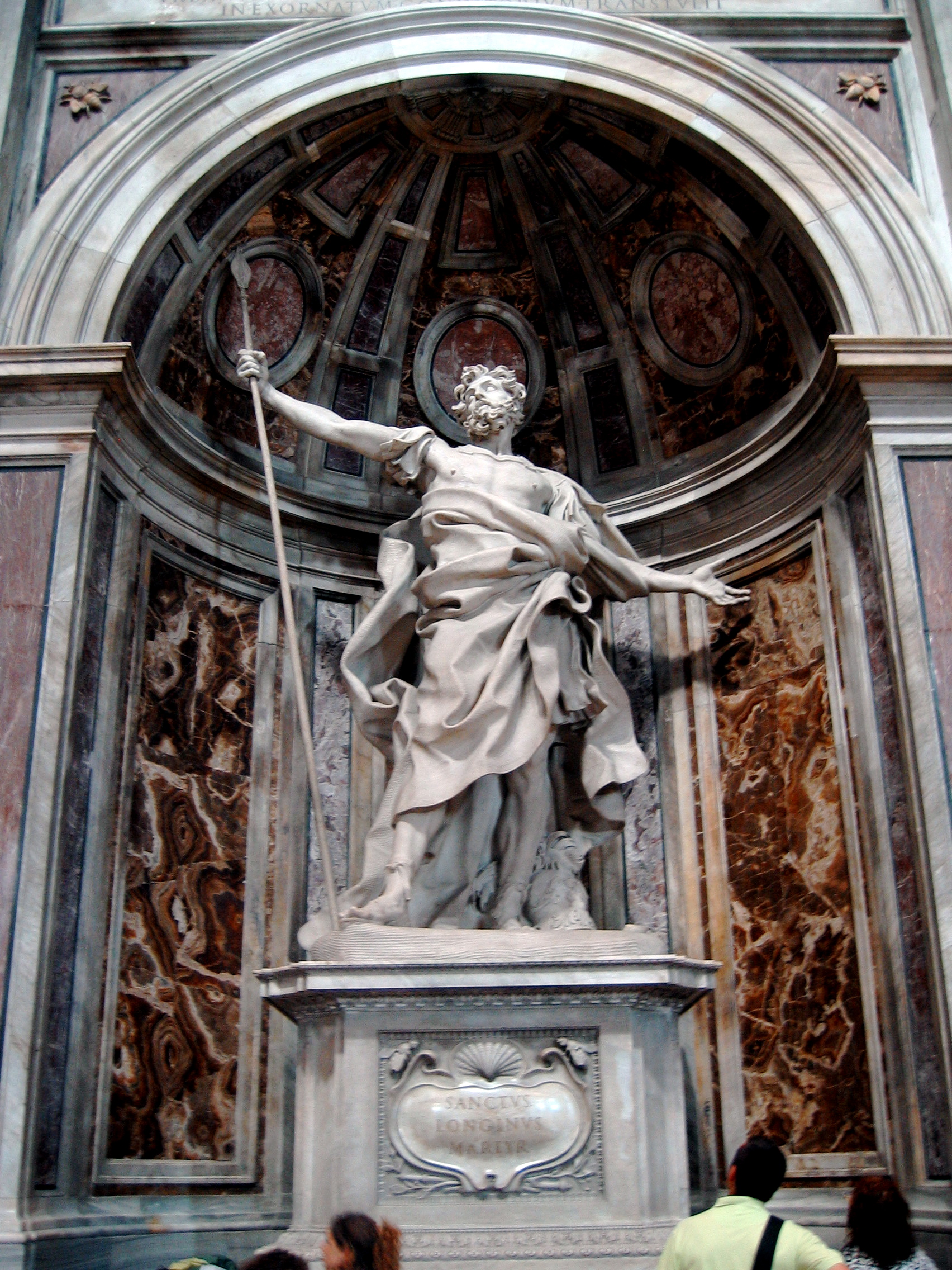 A picture of Saint Longinus in St. Peter's Basilica, Vatican City